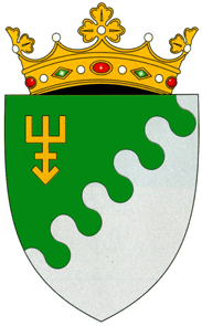 CoA of Edineț District.gif